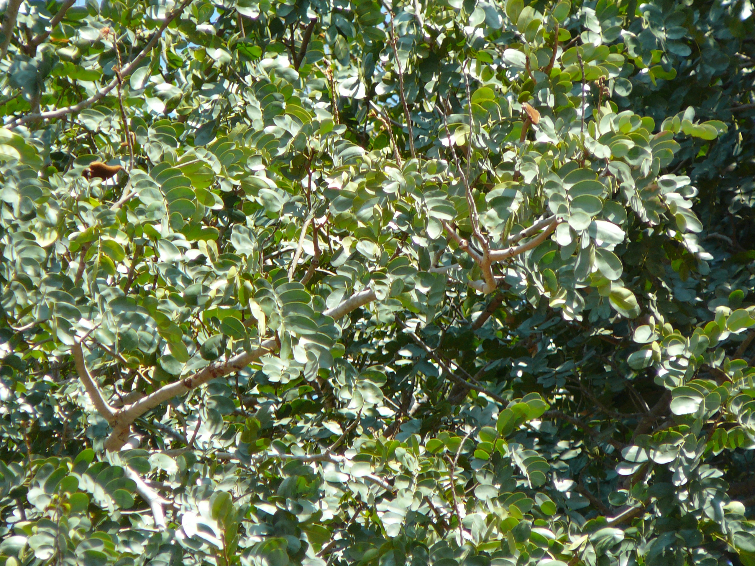 Zambezi teak